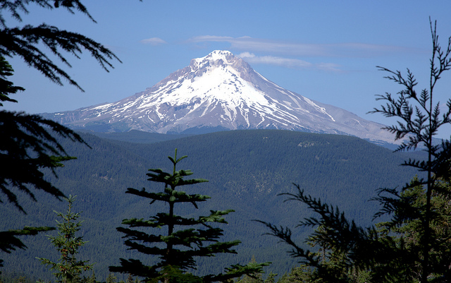 Mount Hood from about 0.8 miles southeast of Linney Butte